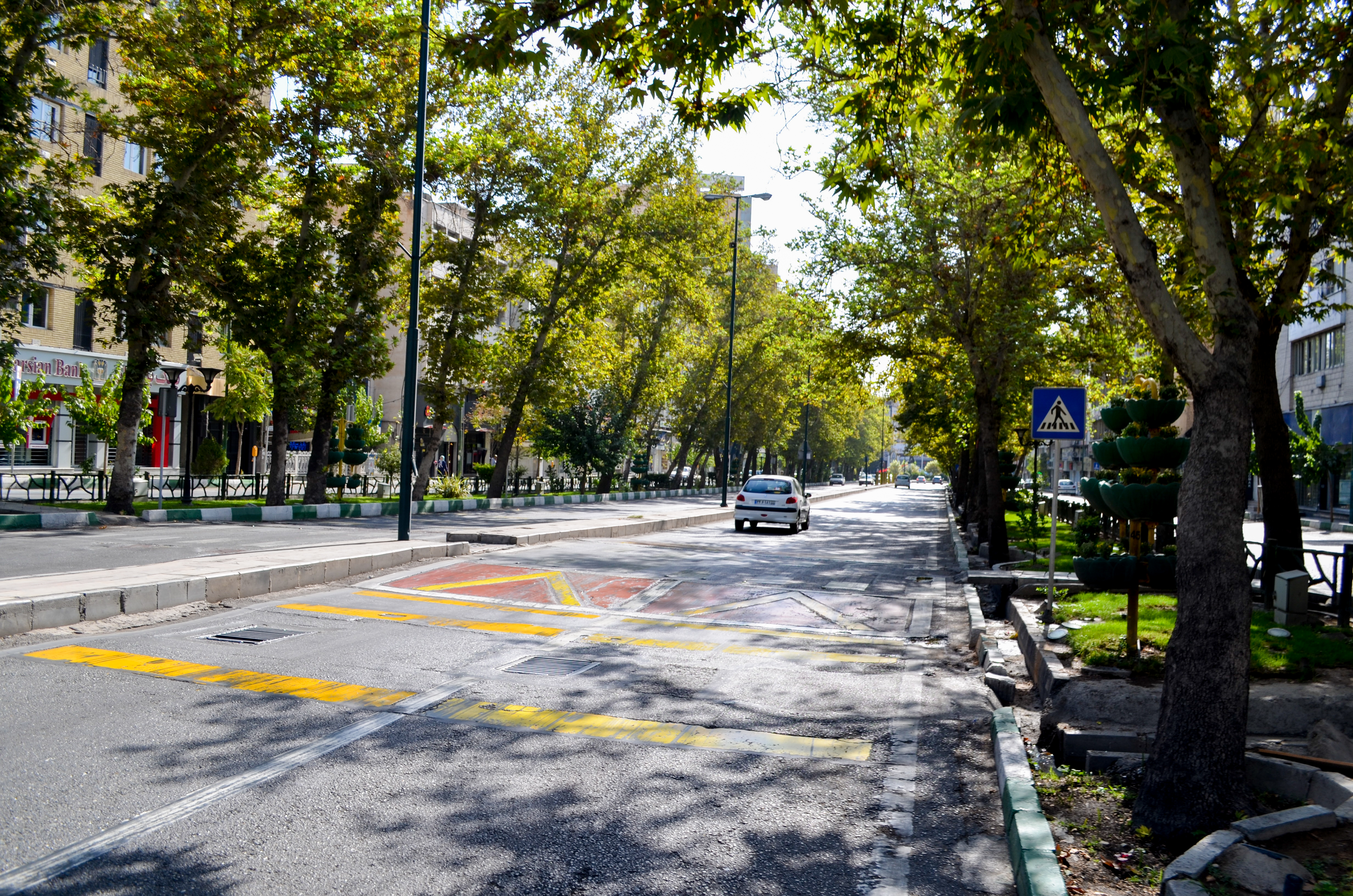 Mirdamad Avenue/ Bulvard at District 3 of Tehran, Iran. Summer 2018 / 1397 Photo looking toward Mother Square.